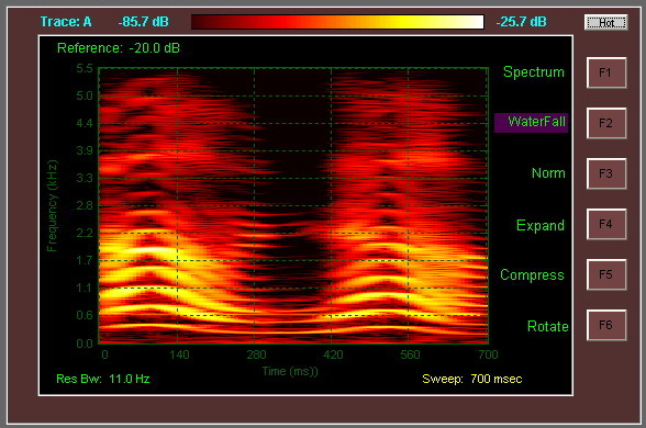 Spectrogram of little girl saying "Oh No".